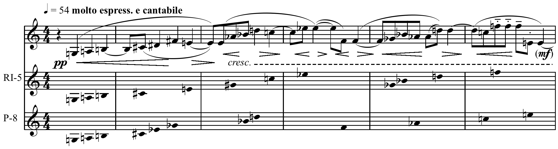 "lament" melody and its construction from the pitches of RI-5 and P-8. Written by Berg, who died more than 70 years ago. See: File:Berg - Violin Concerto lament melody.mid